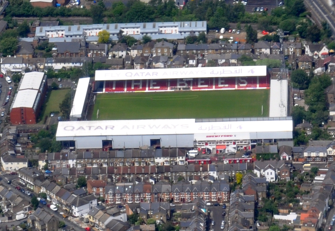 Aerial photograph of Griffin Park football stadium, Brentford, London